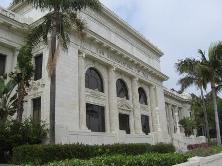 Ventura County Courthouse, now the City Hall of Ventura.